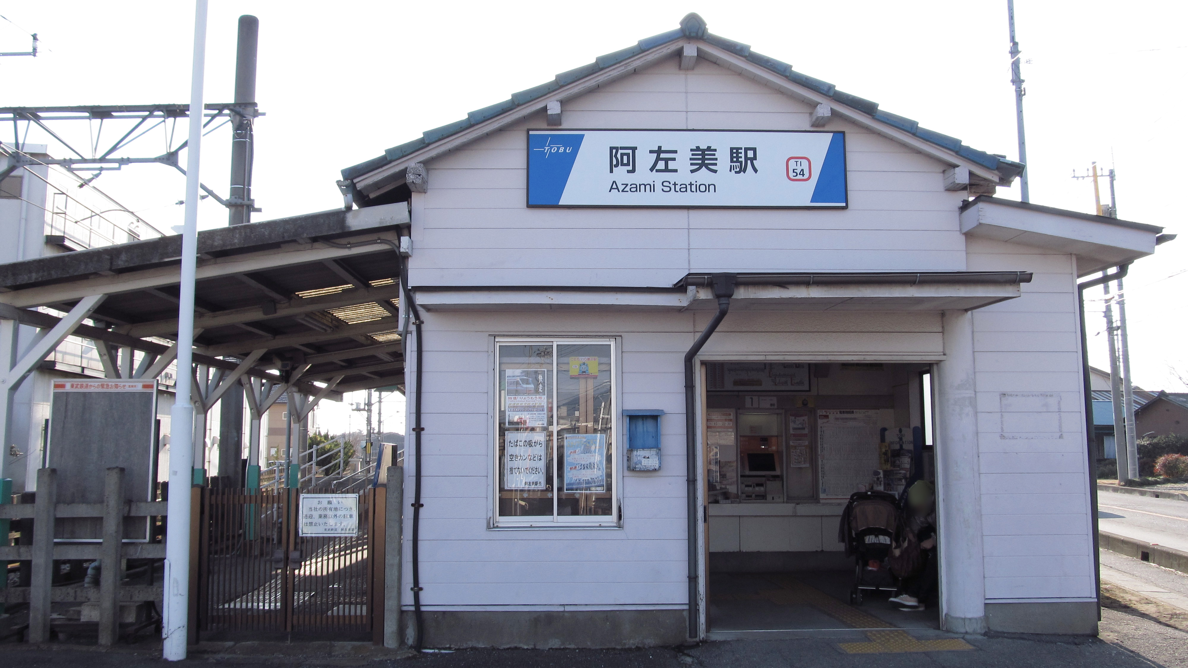 The building of Azami Station on the Tobu Railway Kiryū Line in Midori city, Gumma prefecture, Japan